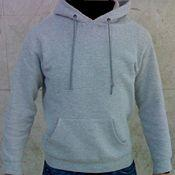 Sweatshirt